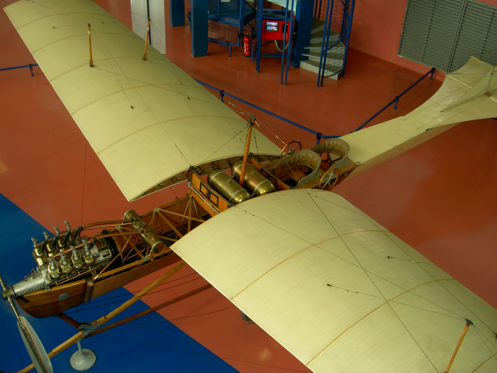 Antoinette VII (French plane, for military use)